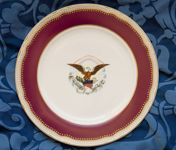 The first course of the 2009 presidential inaugural luncheon will be served on replicas of the china from the Lincoln Presidency, which was selected by Mary Todd Lincoln at the beginning of her husband's term in office. The china features the American bald eagle standing above the U. S. Coat of Arms, surrounded by a wide border of "solferino," a purple-red hue popular among the fashionable hosts of the day.